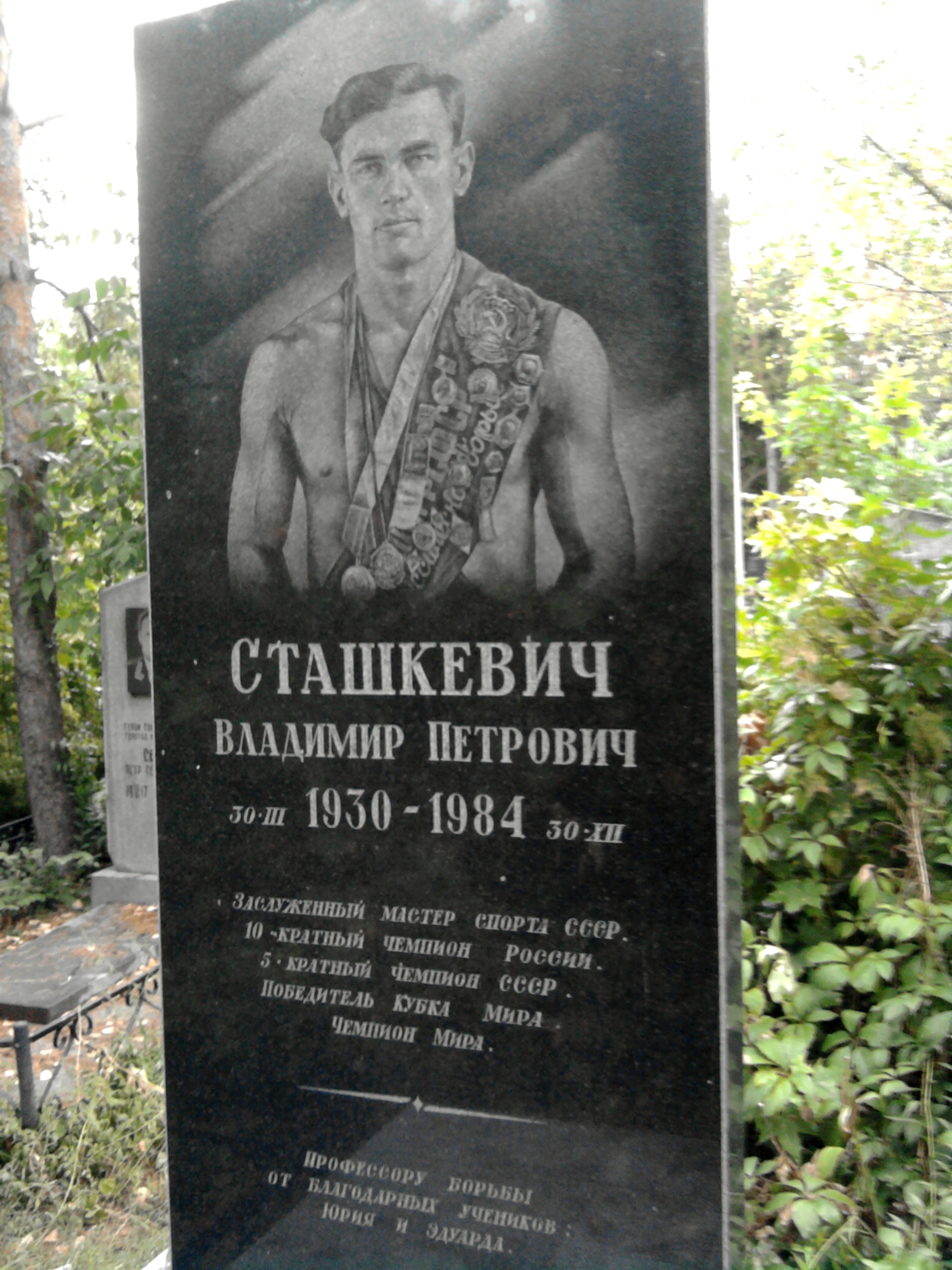 Могила Владимира Петровича Сташкевич (1930 — 1984) — советский борец классического стиля, чемпион и призёр чемпионатов СССР и мира, Заслуженный мастер спорта СССР (1979).